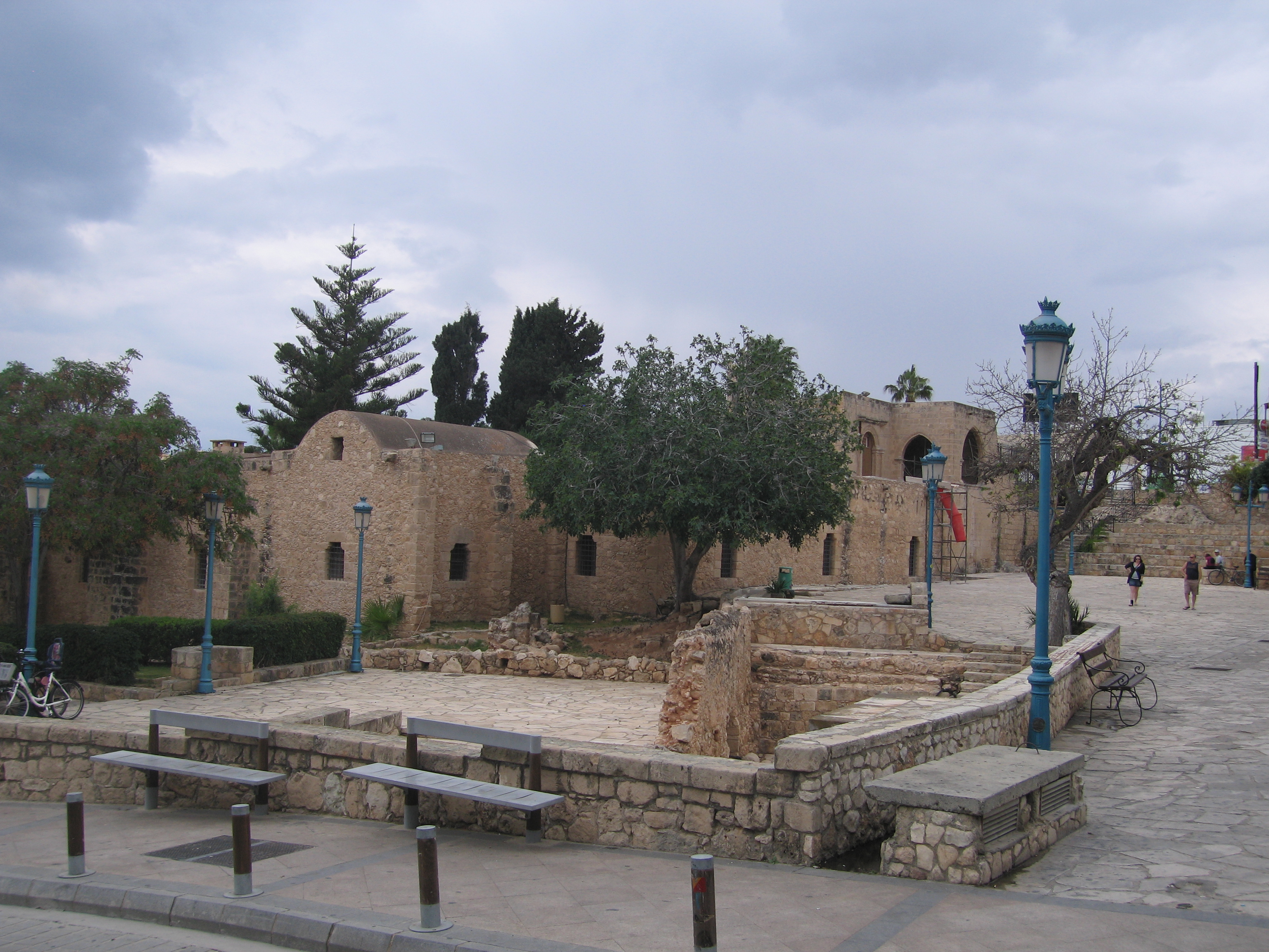 Agia Napa Monastery, Cyprus